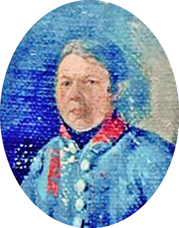 Emanuel Joseph von Herigoyen (1746-1817), Portuguese architect